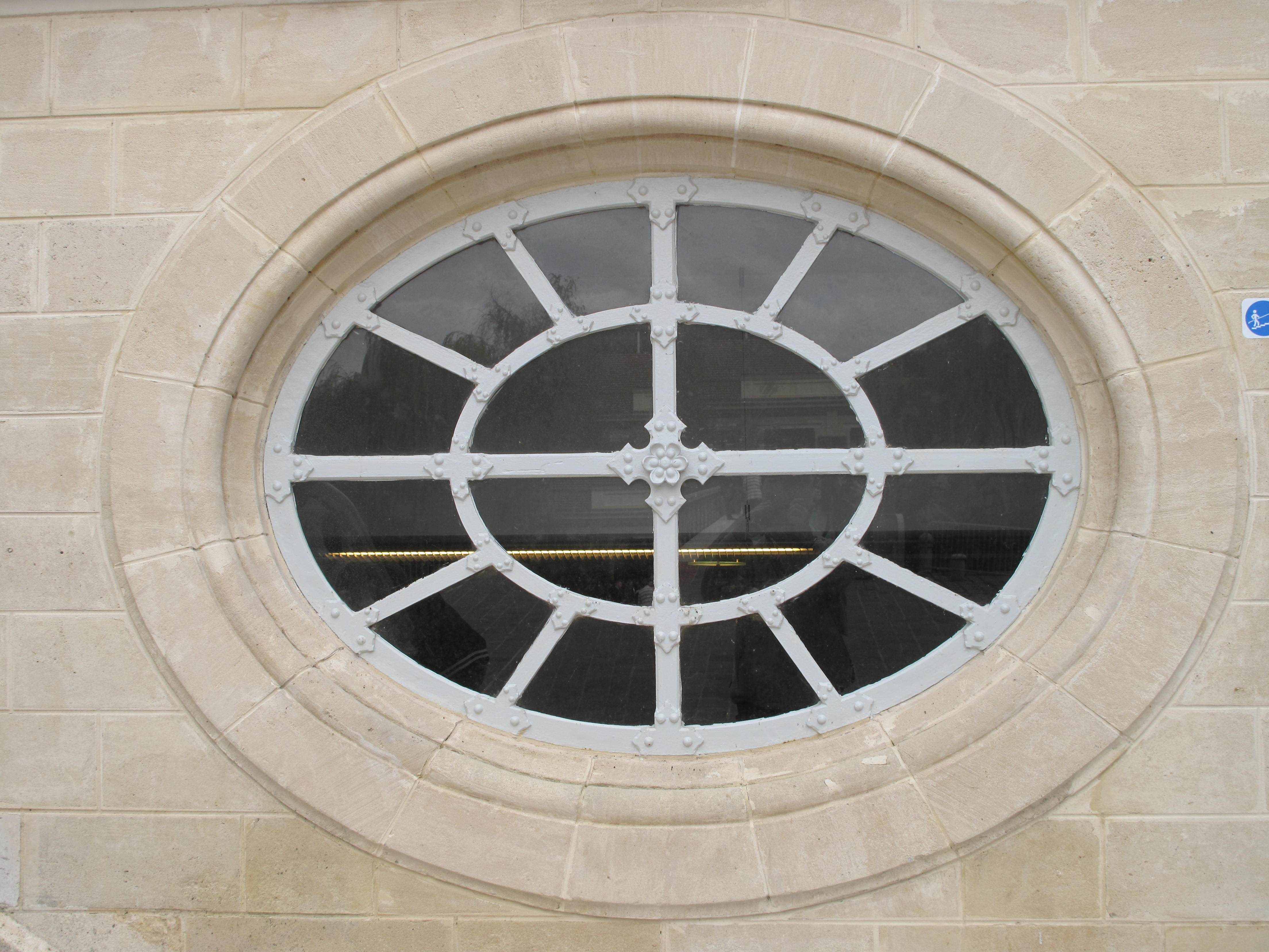 The Oeil-de-boeuf of la Colonnade in the chocolate factory in Noisiel (Seine-et-Marne, France).